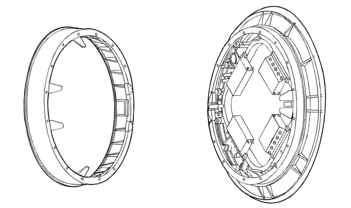 The Common Berthing Mechanism (CBM) connects one pressurized module to another pressurized module on the U.S. segment. The CBM has an active and a passive half. The active half contains a structural ring, capture latches, alignment guides, powered bolts, and controller panel assemblies. Only the active half of the CBM is connected to power and data. The passive half has a structural ring, capture latch fittings, alignment guides, and nuts. During the installation of a module that uses CBM, a robotic arm moves the module with the passive half into the capture envelope of the active half. Following this, the latching process begins. .Similar to the CBM active half is the Manual Berthing Mechanism (MBM). The MBM serves as a temporary attachment point and is located on the Z1 truss segment. The MBM is manually operated by an EVA crew person and can be mated with any passive CBM.